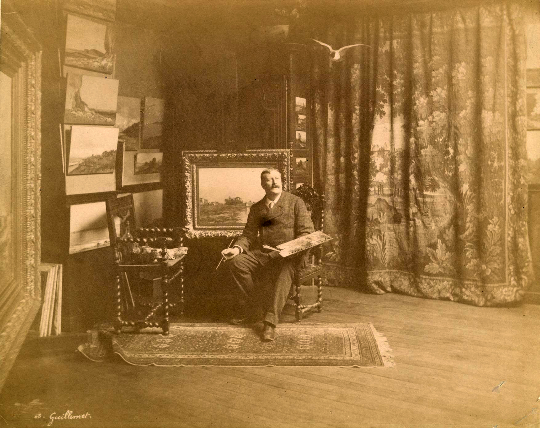 Attributed to Edmond Bénard, Antoine Guillemet in his Paris studio